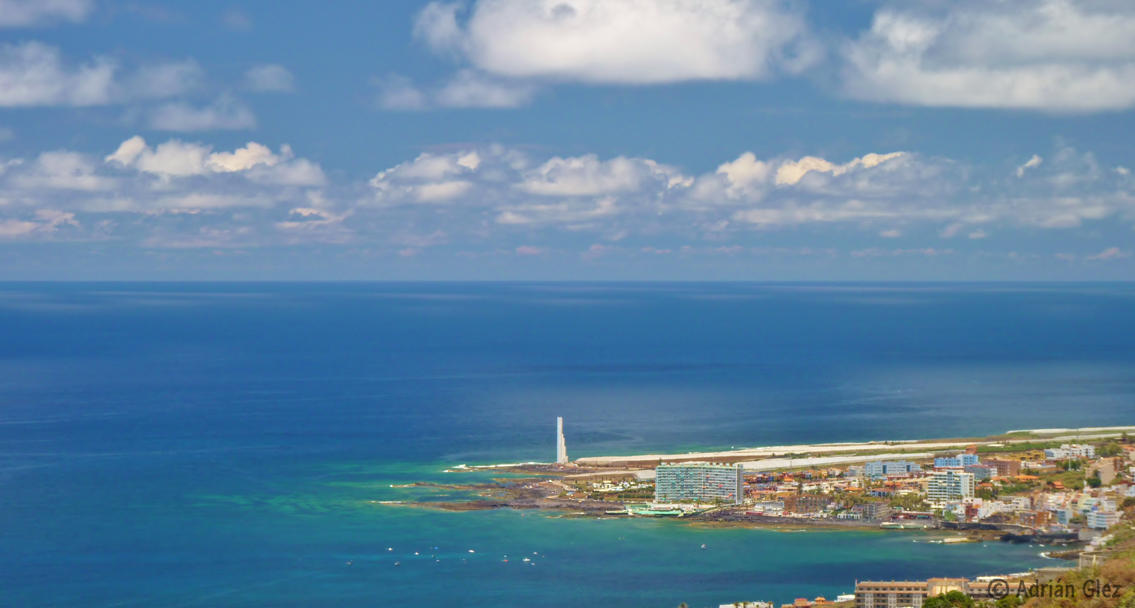 Punta del Hidalgo view